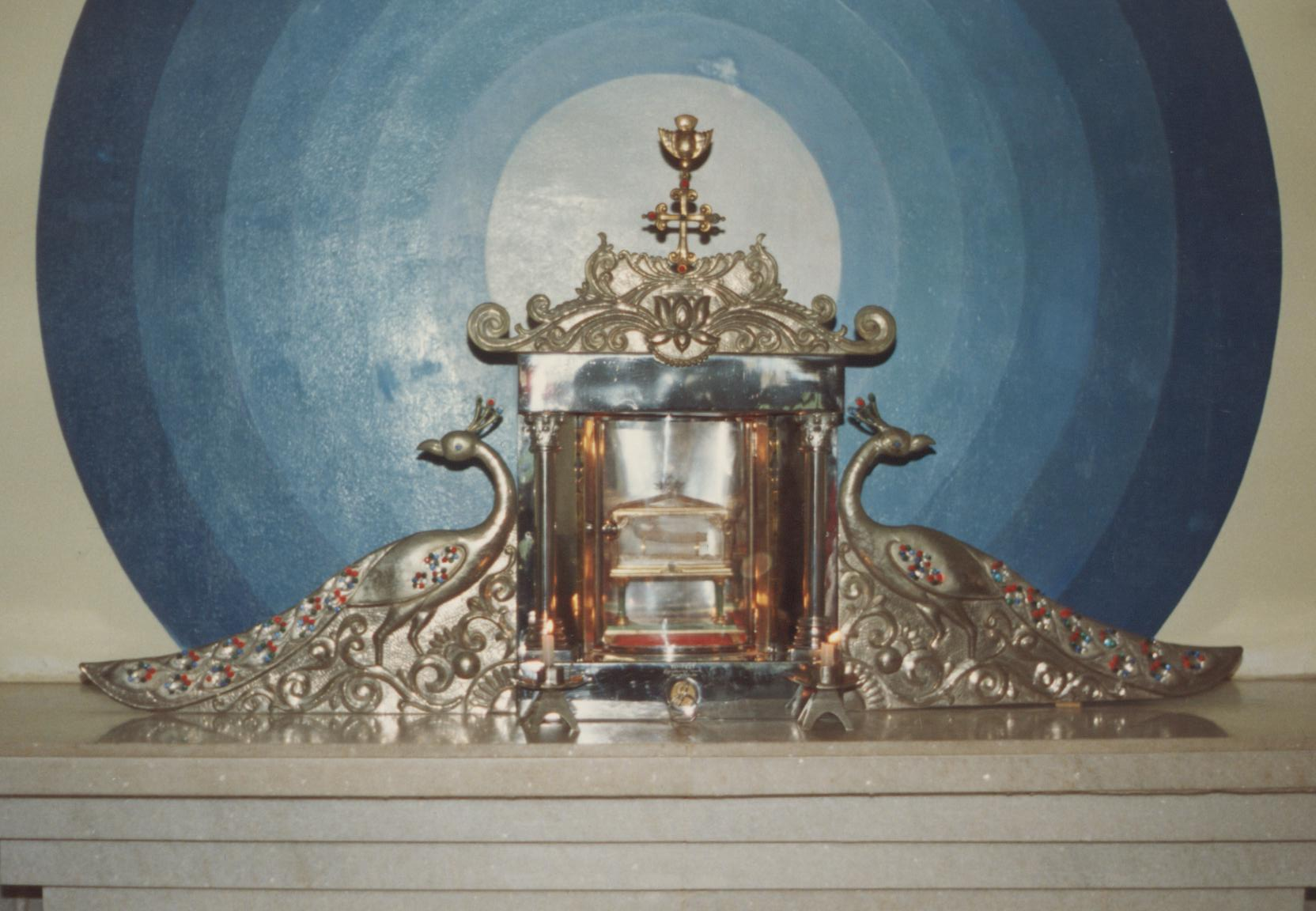 Reliquiary of St. Thomas, Kodungallur, Kerala, India